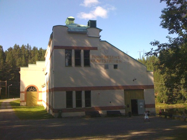 Finnforsens (old) hydro-electric power station, established 1908 and closed 1955. The start of Skellefteå Kraft AB. Nowadays a museum.